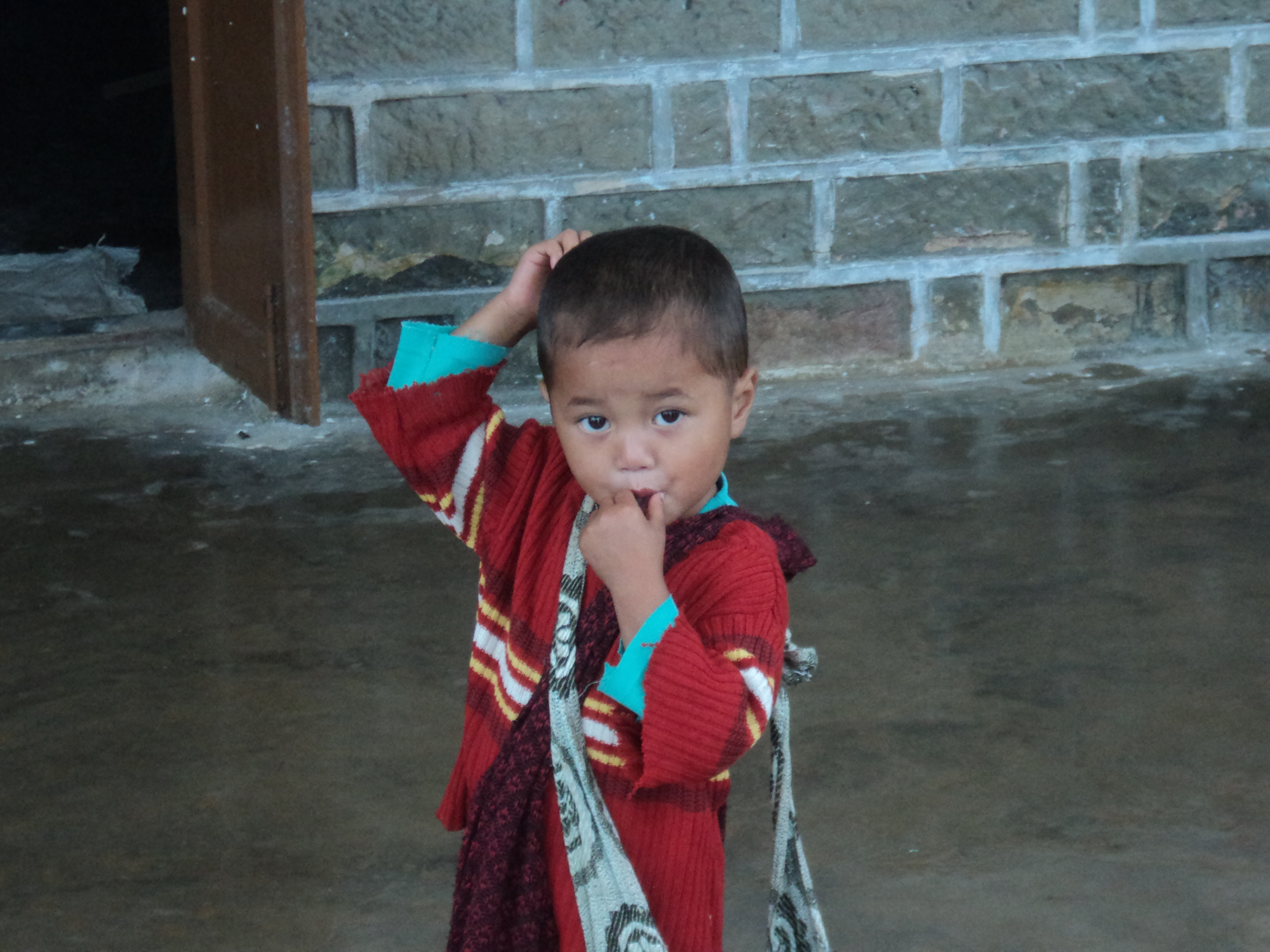 A Khasi Child